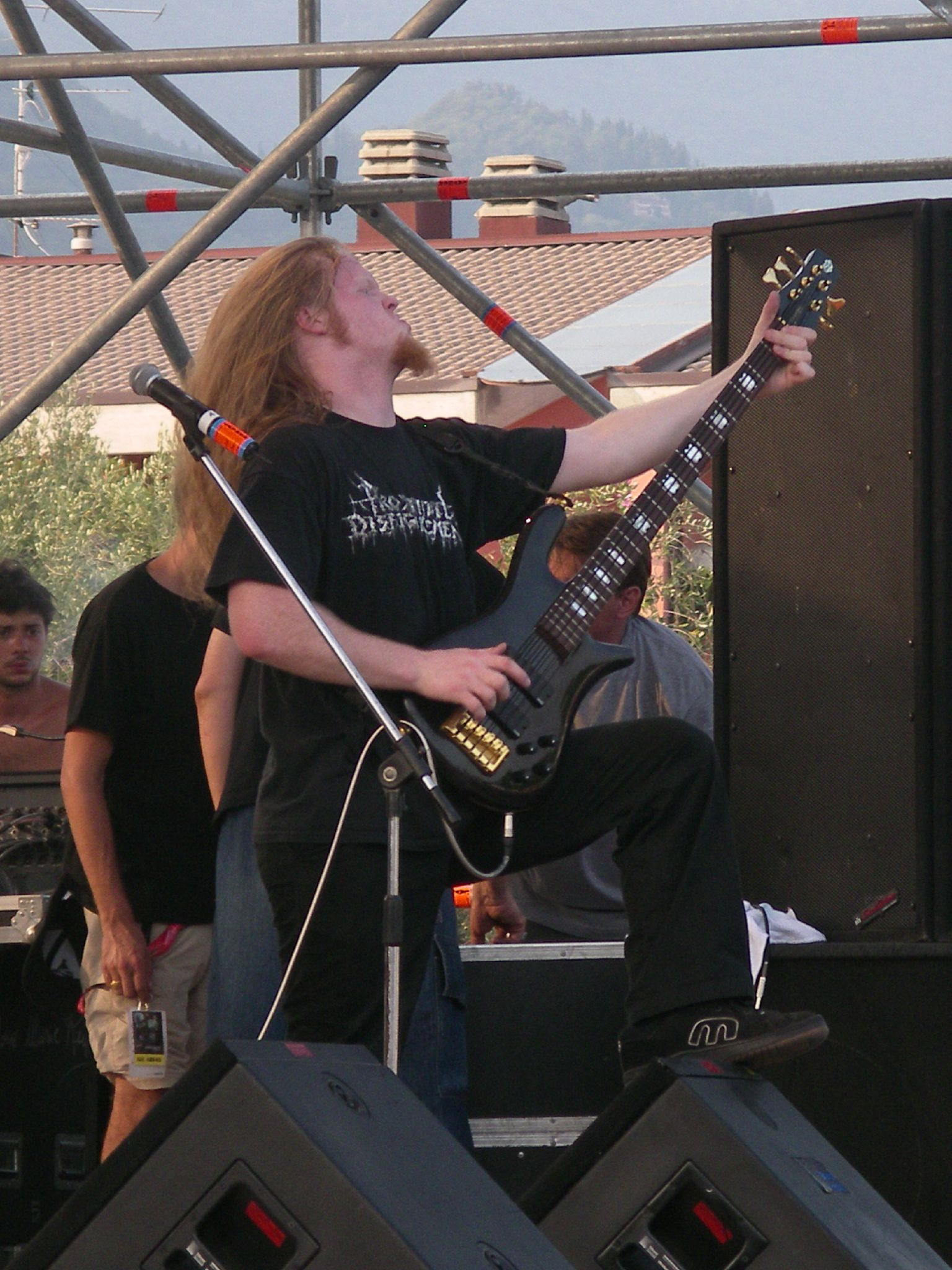 Joe Payne of Nile